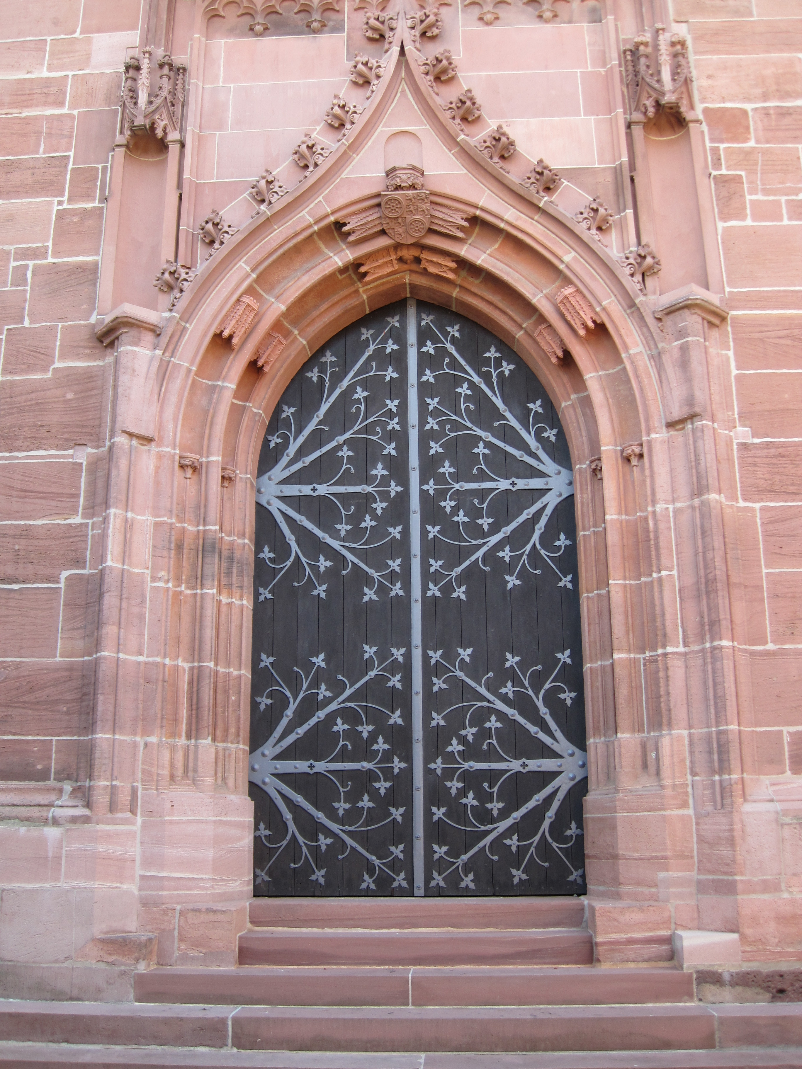 St. Peter’s and Paul’s parish church in Eltville, Germany